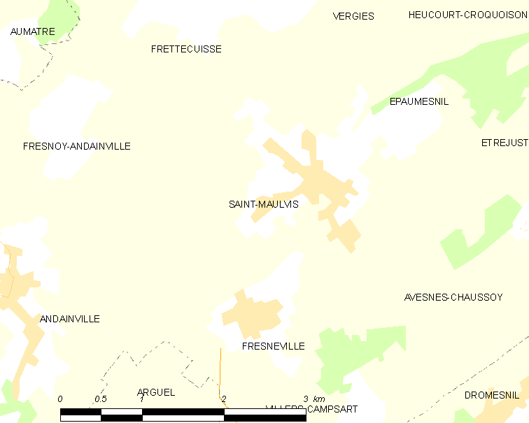 Map of French municipality Saint-Maulvis